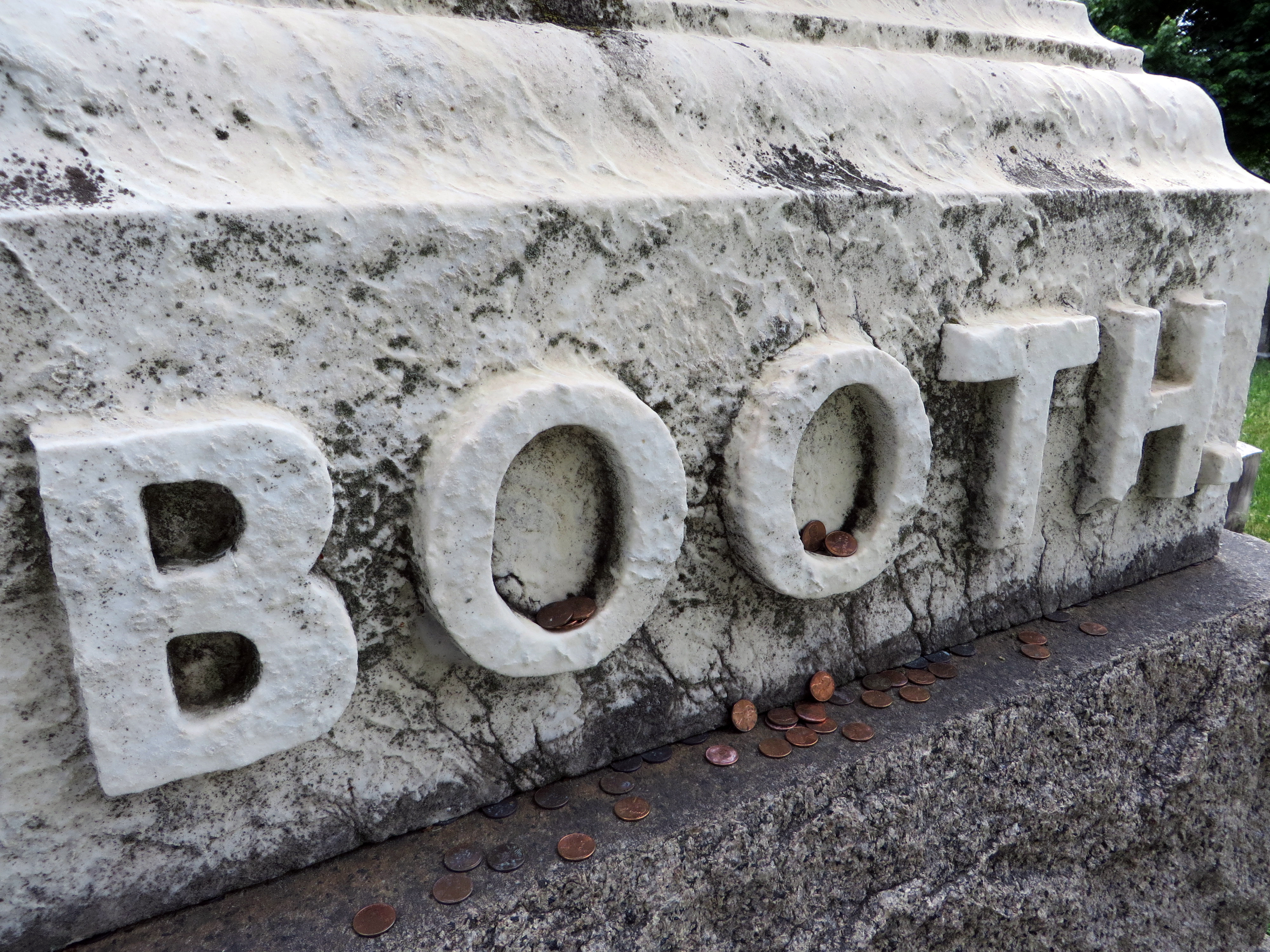 Junius Brutus Booth gravestone detail of Booth name with pennies. Visitors to the Booth family plot often leave pennies, which depict Lincoln on their obverse, on the large monument of John Wilkes Booth's father, Junius.